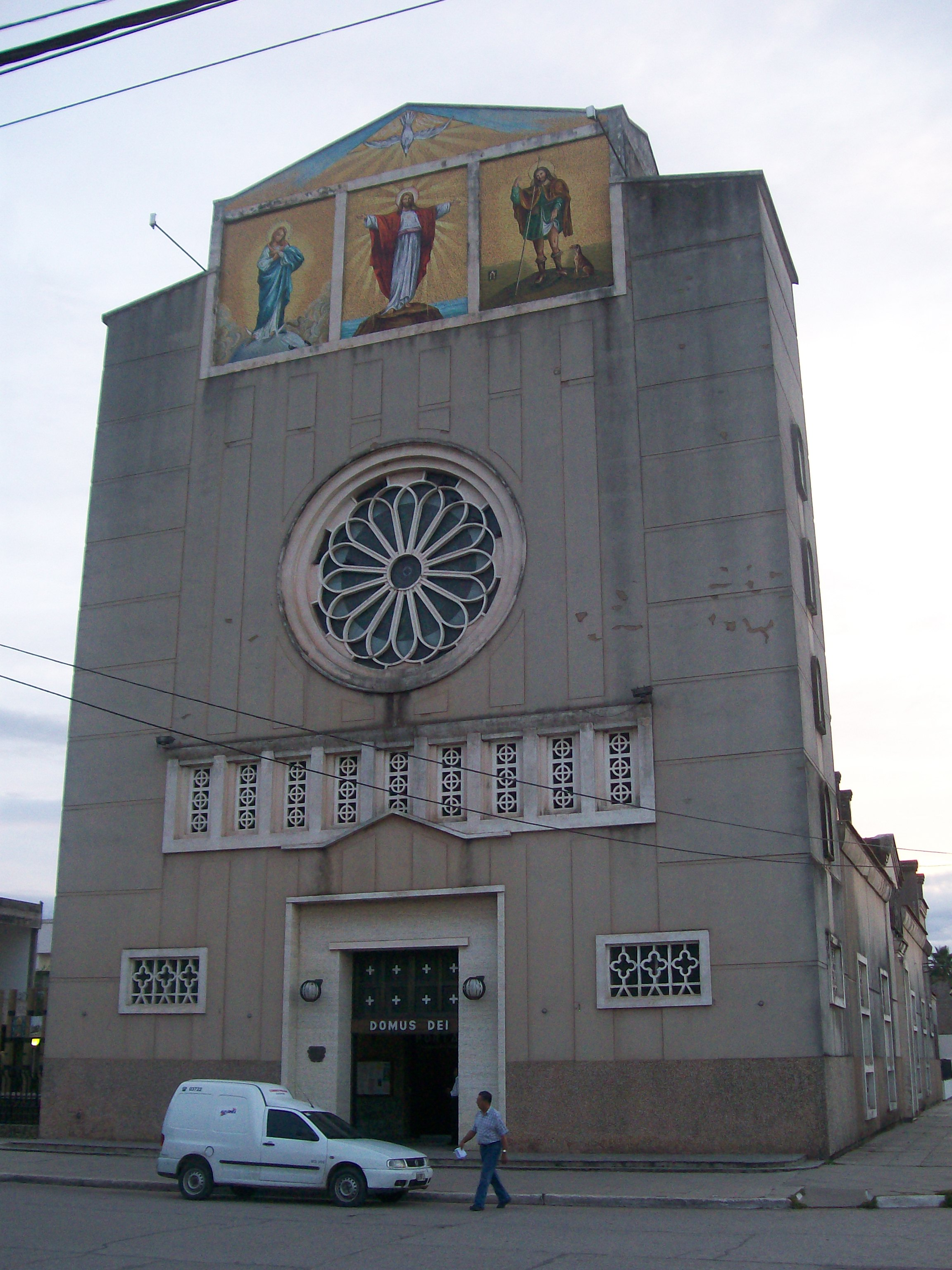 Saint Roch Cathedral in Presidencia Roque Sáenz Peña (Chaco Province, Argentina).